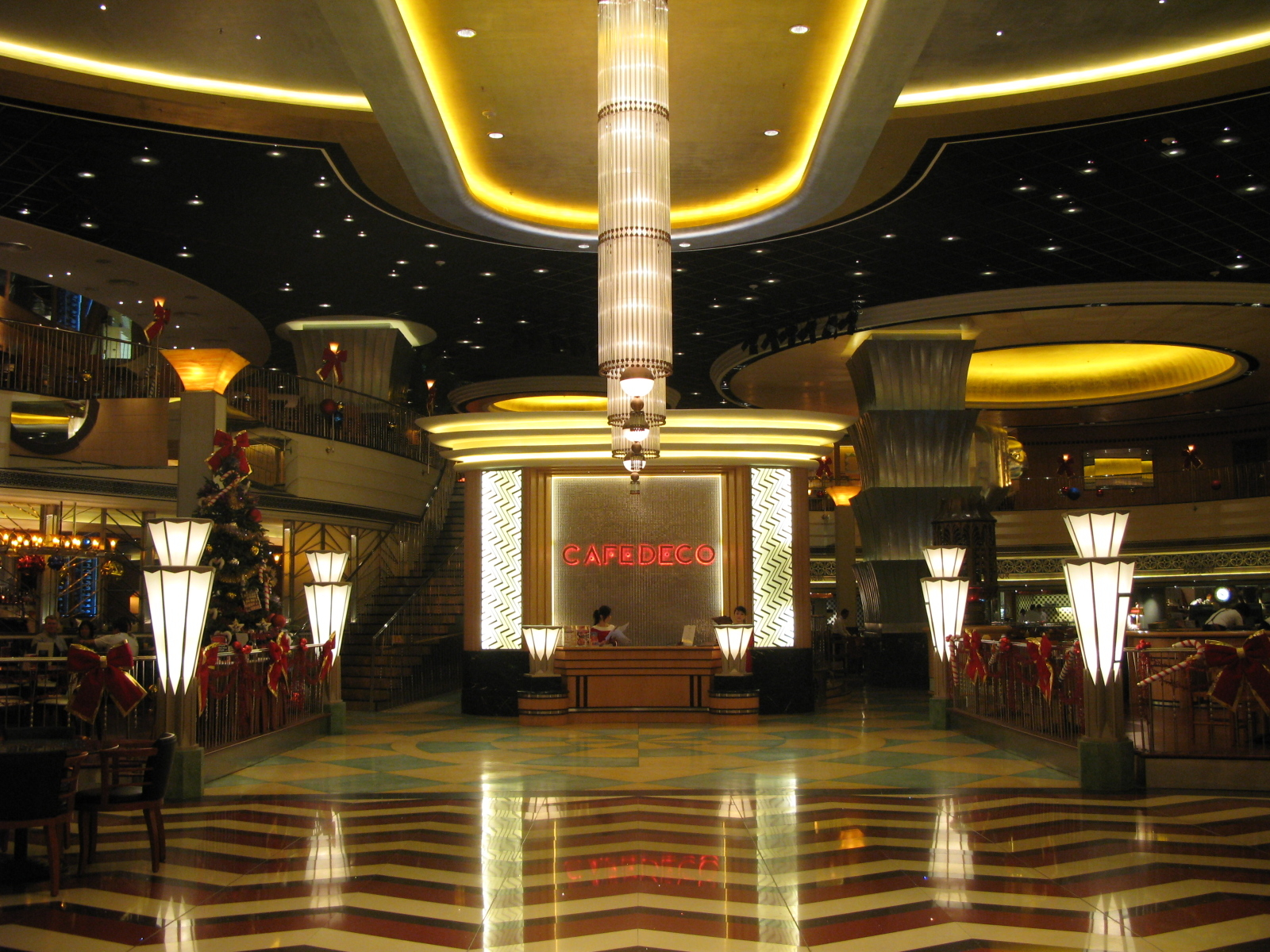 Cafe Deco in The Venetian Macao